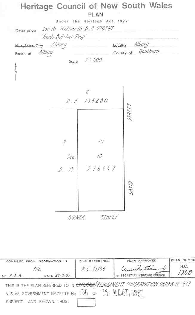 Reid's Butcher Shop: PCO Plan Number 537